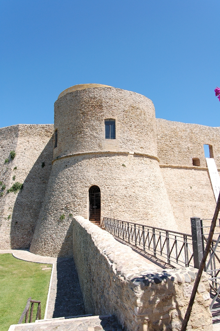 Ortona 2011